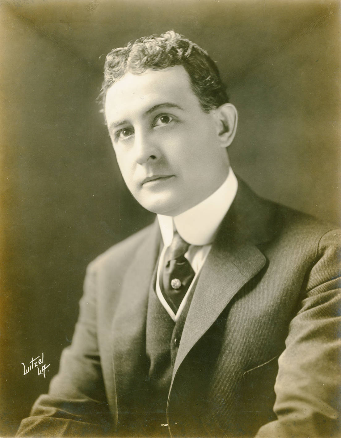 Orrin Johnson, silent film actor Subjects: actors